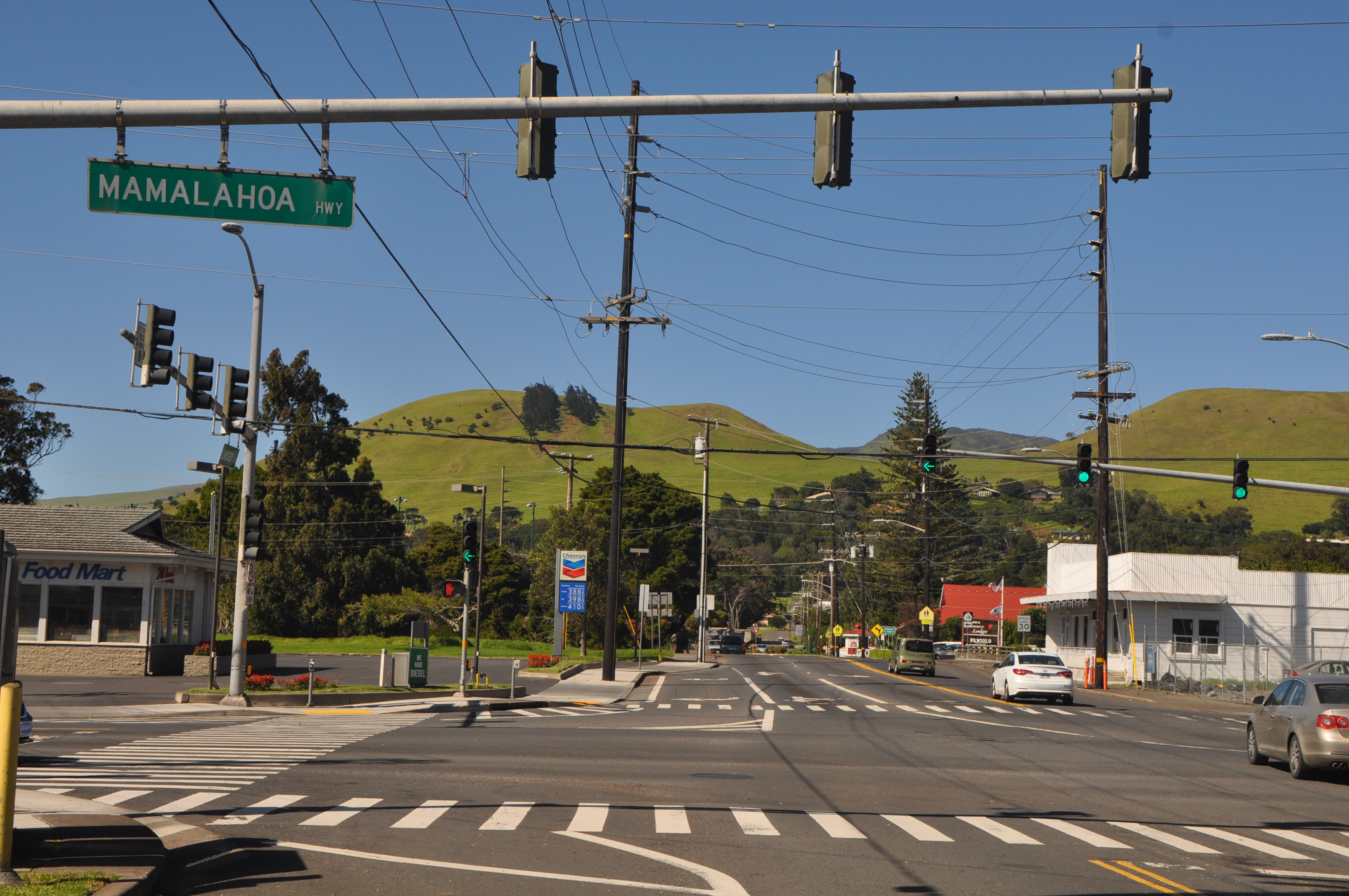 Intersection of Mamalahoa Highway and Kawaihae Road/Lindsey Road in Waimea, Hawaii